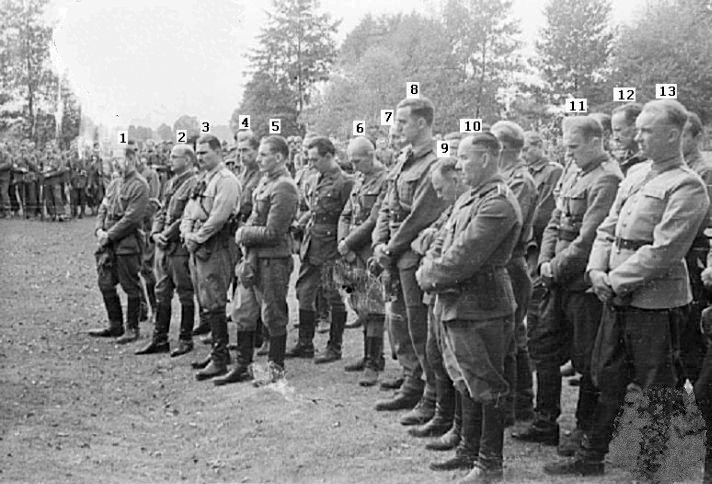 Kampinos Regiment during Warsaw Uprising: Officers of Kampinos Regiment during outdoor mass in Wiersze village, around September 10, 1944. From the left: 1) mjr Alfons Kotowski "Okoń", 2) Bogdan Jaworski "Wyrwa", 3) Adolf Pilch "Dolina", 4) Lech Żabierek "Wulkan", 5) Witold Lenczewski "Strzała", 6) Zygmunt Sokołowski "Zetes", 7) Zygmunt Koc "Dąbrowa", 8) Tadeusz Gaworski "Lawa", 9) Walery Żuchowicz "Opończa", 10) Stefan Andrzejewski "Wyżeł", 11) Stanisław Pilarski "Zew", 12) Stefan Iwanowski "Domek", 13) Aleksander Wolski "Jastrząb".